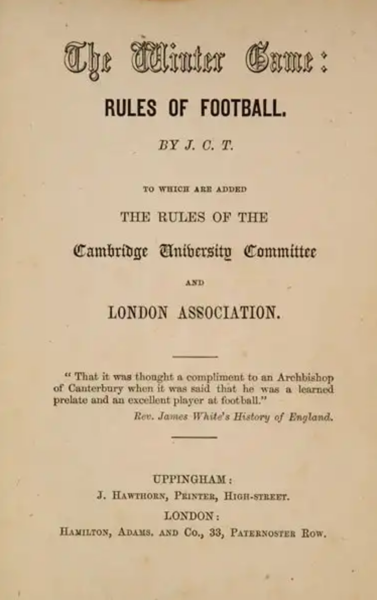 Title page from J. C. Thring (December 1863), The Winter Game, or Rules of Football, to which are added the Rules of the Cambridge University Committee and the London Association. Uppingham: Hawthorn.